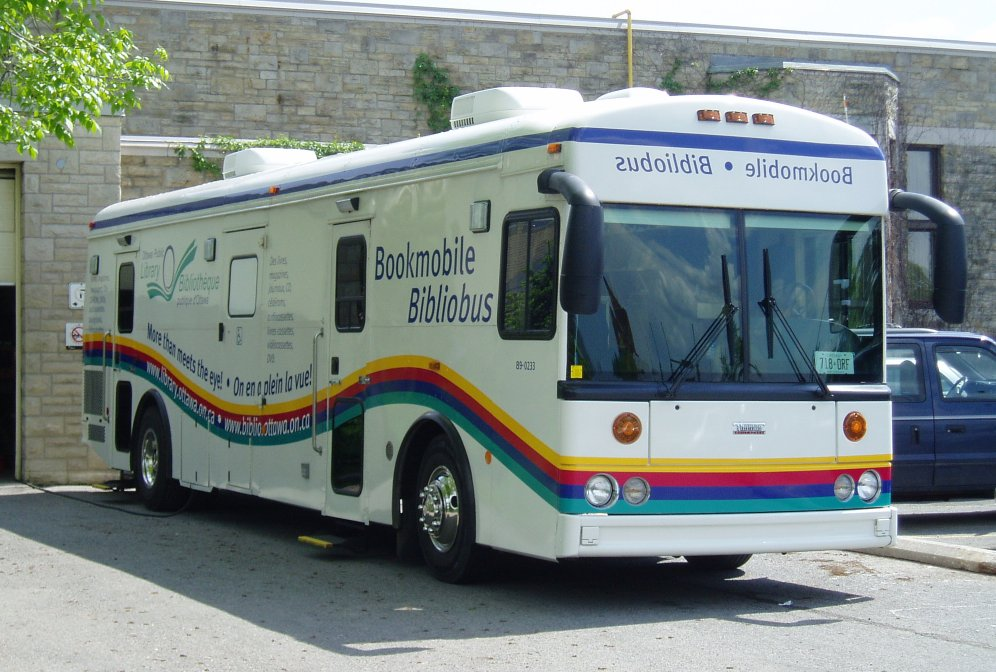 The Ottawa Public Library (OPL) bookmobile, when it was headquartered at the Sunnyside Branch. Taken by SimonP in June 2005